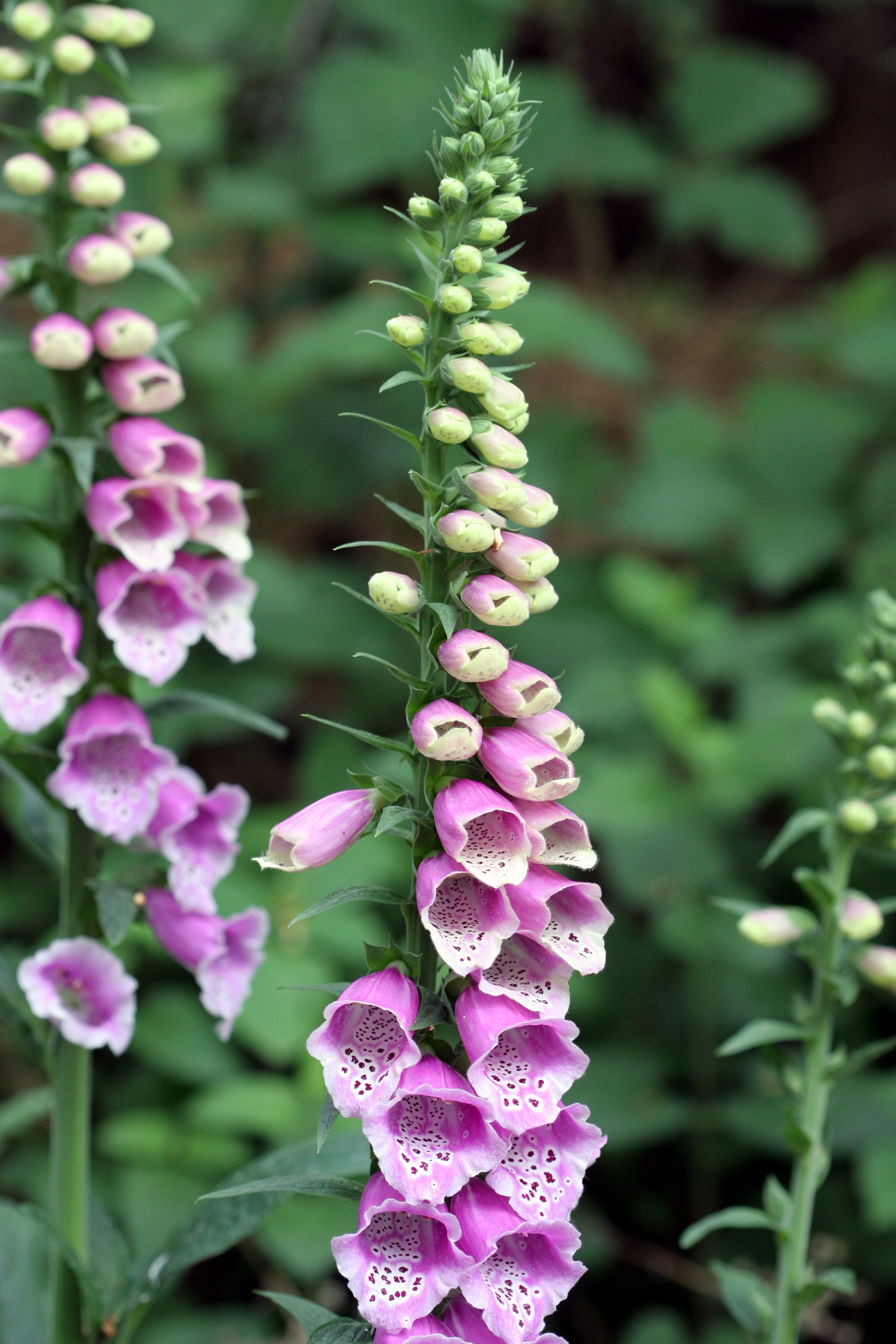 Digitalis purpurea.